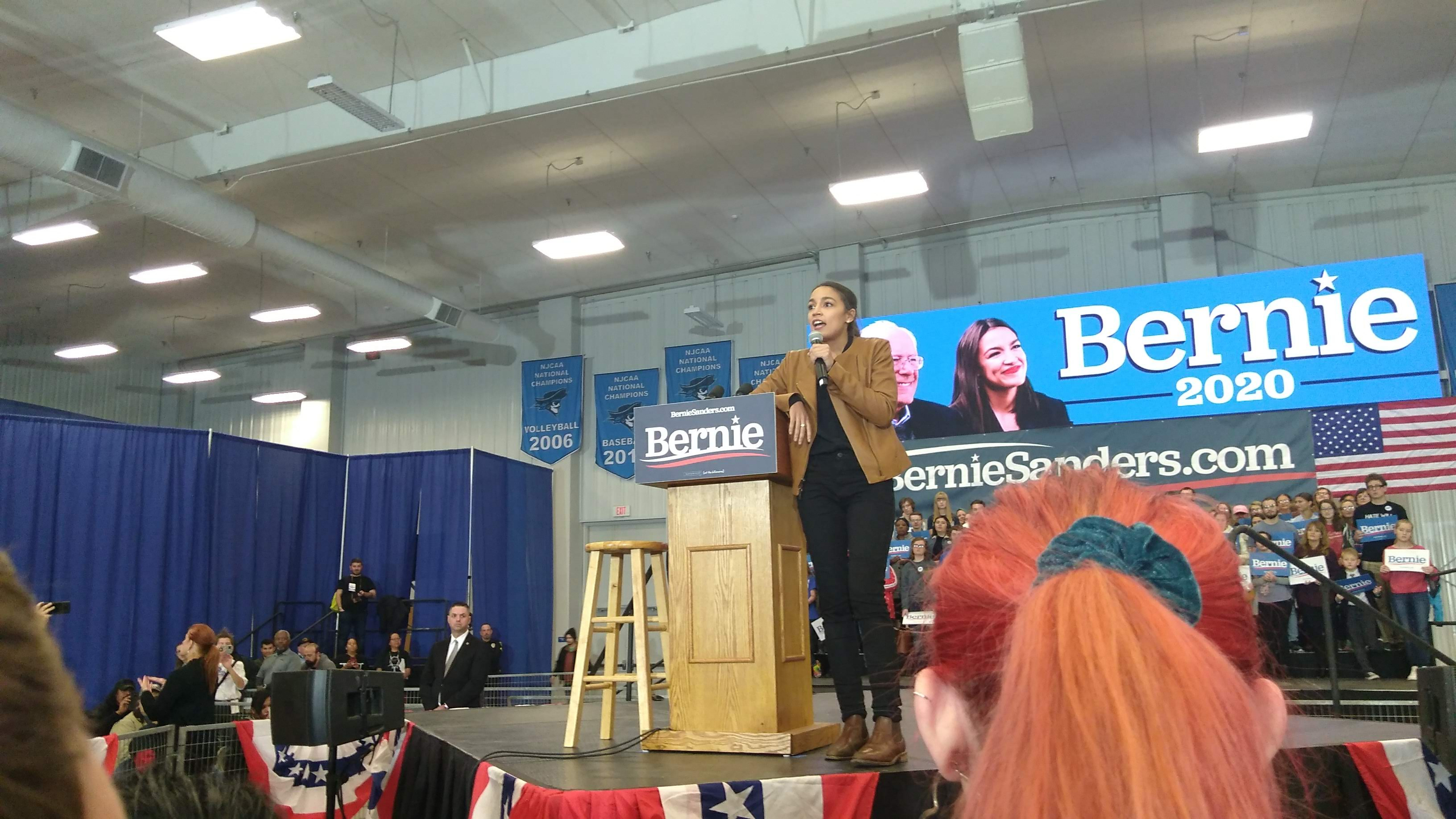 Rep. Alexandria Ocasio-Cortez speaking to attendees at a rally for Bernie Sanders in Council Bluffs, Iowa. J. if used elsewhere.